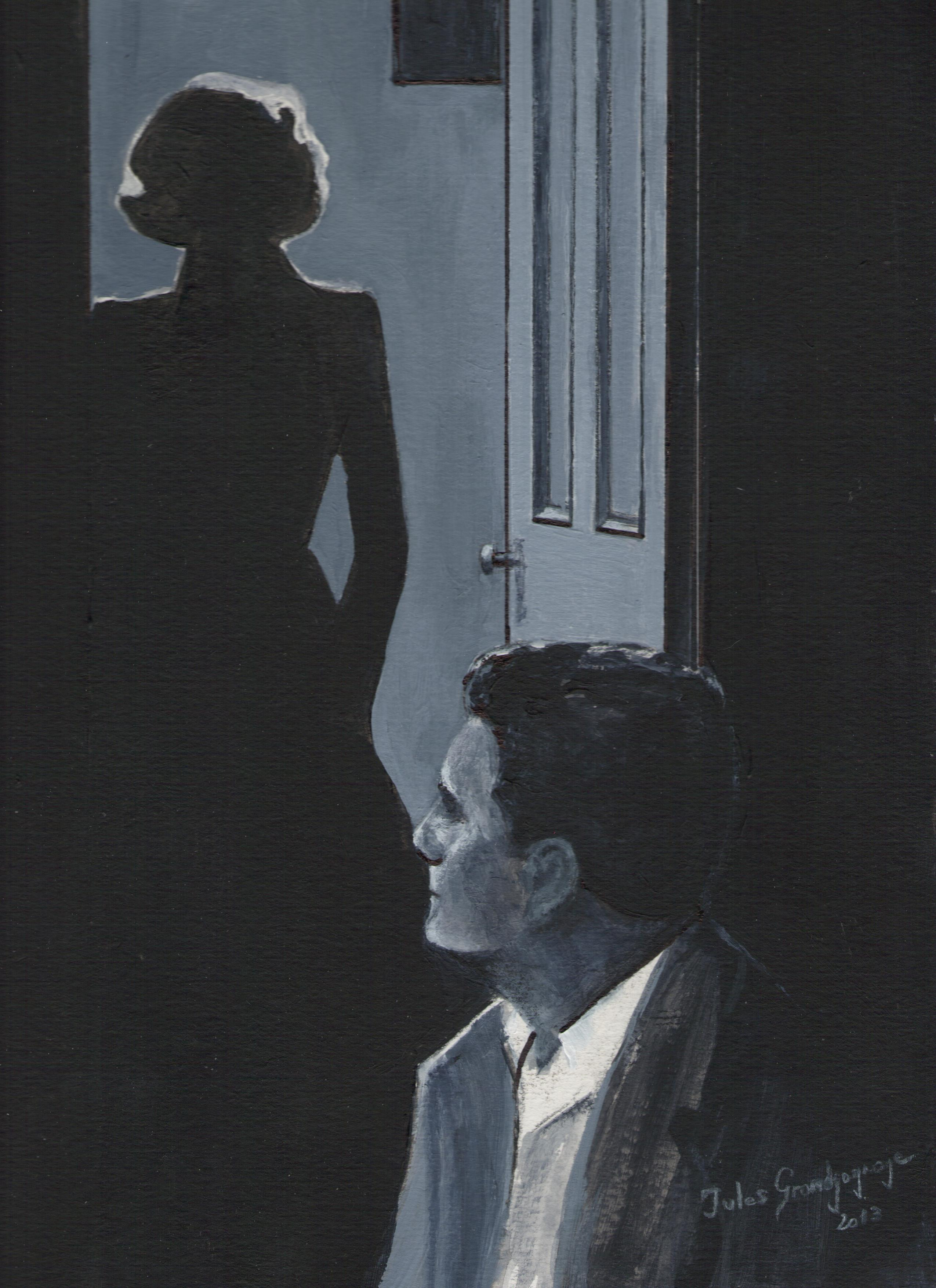 The Postman Always Rings Twice Acrylic painting by Julien Grandgagnage 2013